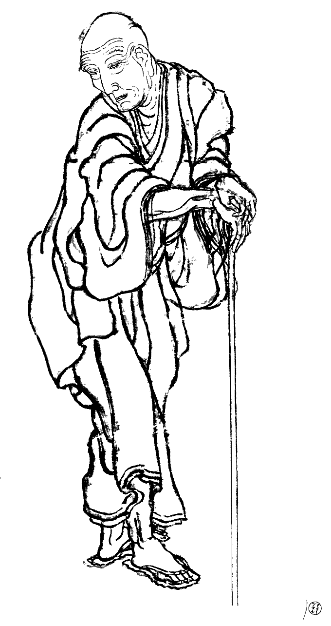 Self portrait as an old man. Original in Louvre.